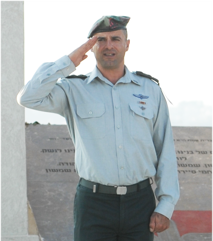 Based on File:Flickr - Israel Defense Forces - Col. Udi Ben Mucha Becomes New Commander of the Kfir Brigade.jpg